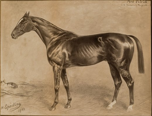 Monochrome lithograph of 1902 Epsom Derby winner. Circa 1902. After H. Sperling